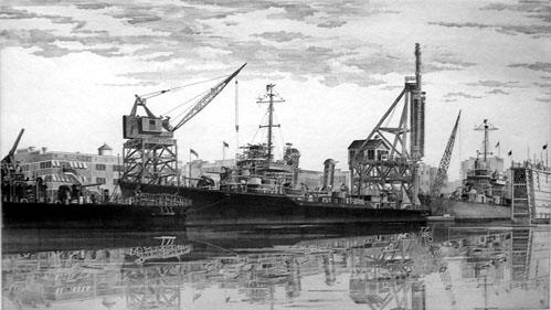 Federal Shipbuilding and Drydock Company, South Kearney, NJ Etching by John Taylor Arms, 1943, commission of United States Navy, Bureau of Ships. URL: URL